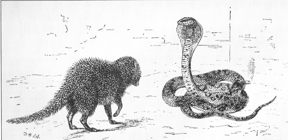 Mongoose and Cobra.